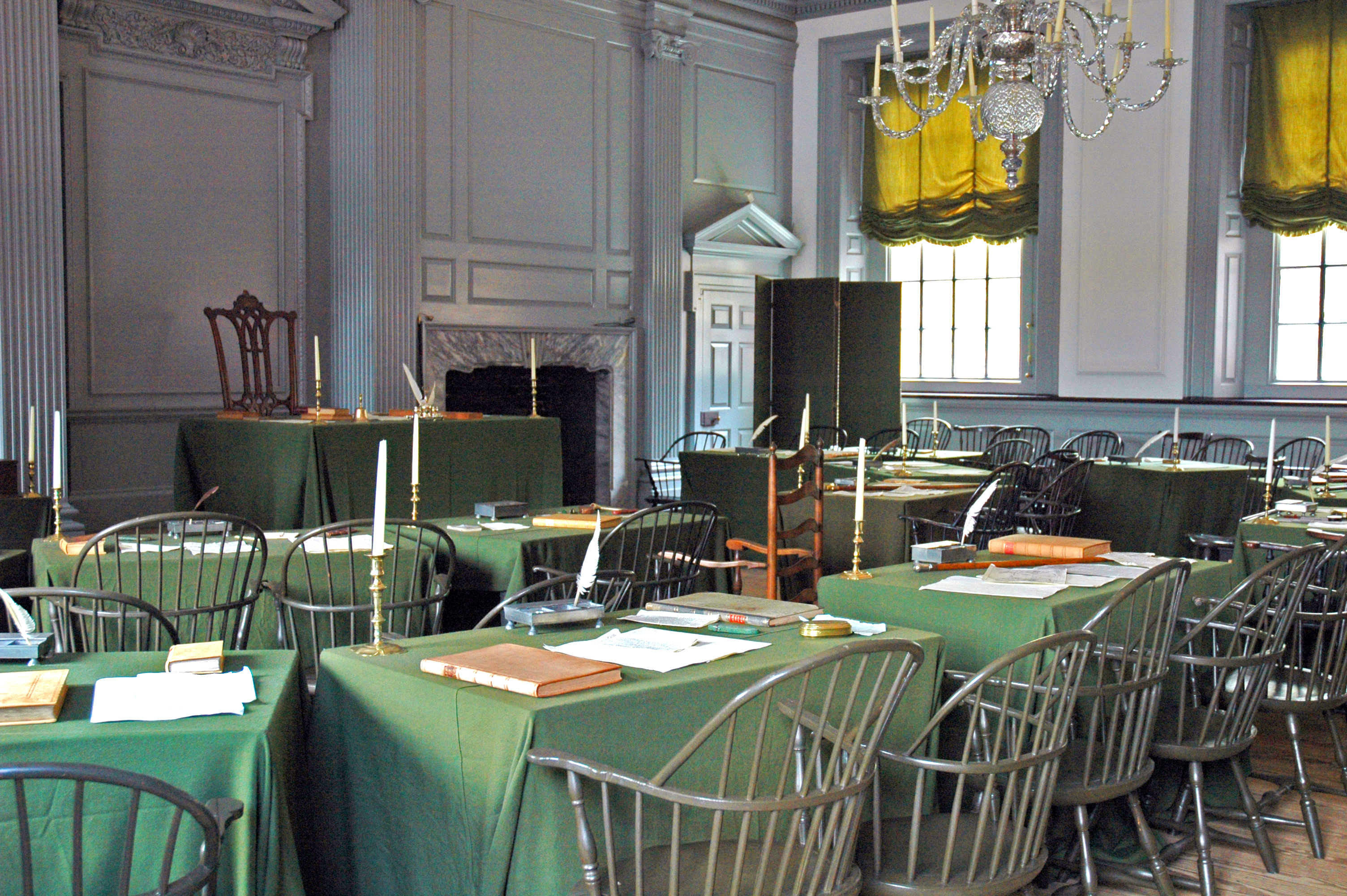 The Assembly Room, in which the United States Declaration of Independence and Constitution were drafted and signed, at Independence Hall in Philadelphia, Pennsylvania.